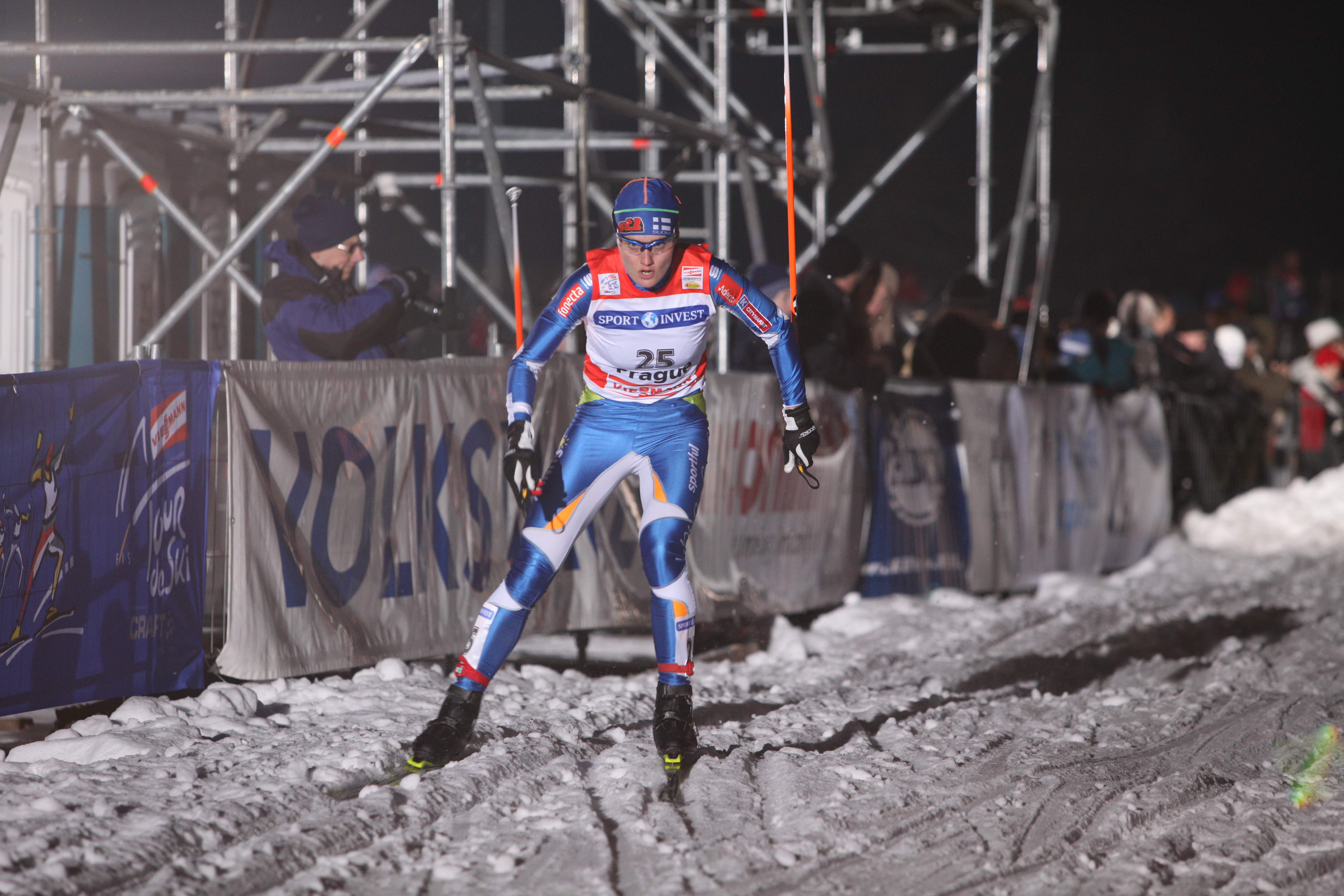 Pirjo Muranen competes at Ski Sprint Praha in 2010